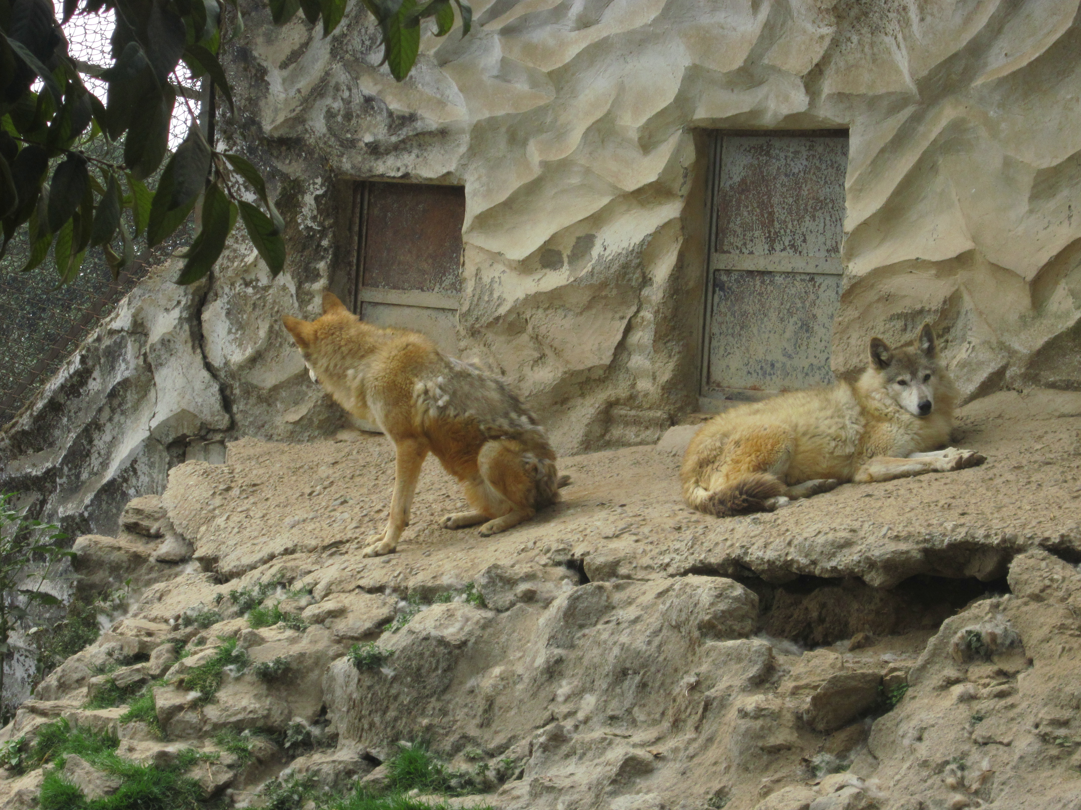 ZOOLOGICAL PARK IN DARJEELING,KOLKATA